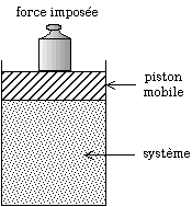 With this system, it is possible to measure the variations of volume when he pressure and the temperature are fixed. The container is very rigid and with thermostatic control, and a force is put on a mobile piston. The movements of the piston allow the determination of the volume changes.